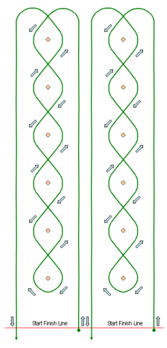 Sketch of Nez Percé Stake Race course.